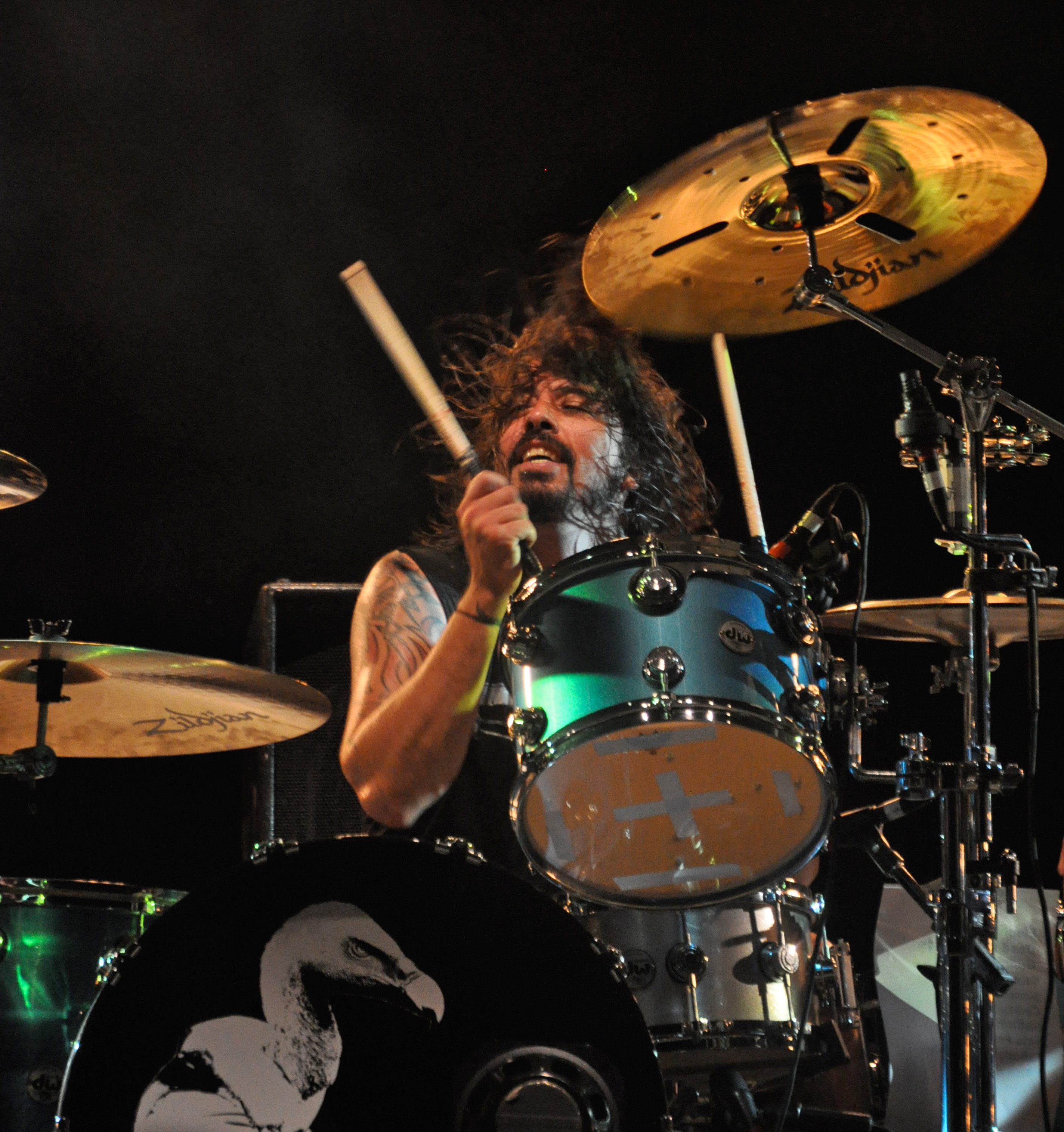 Dave Grohl of Nirvana; August 2009 at Austin City Limits